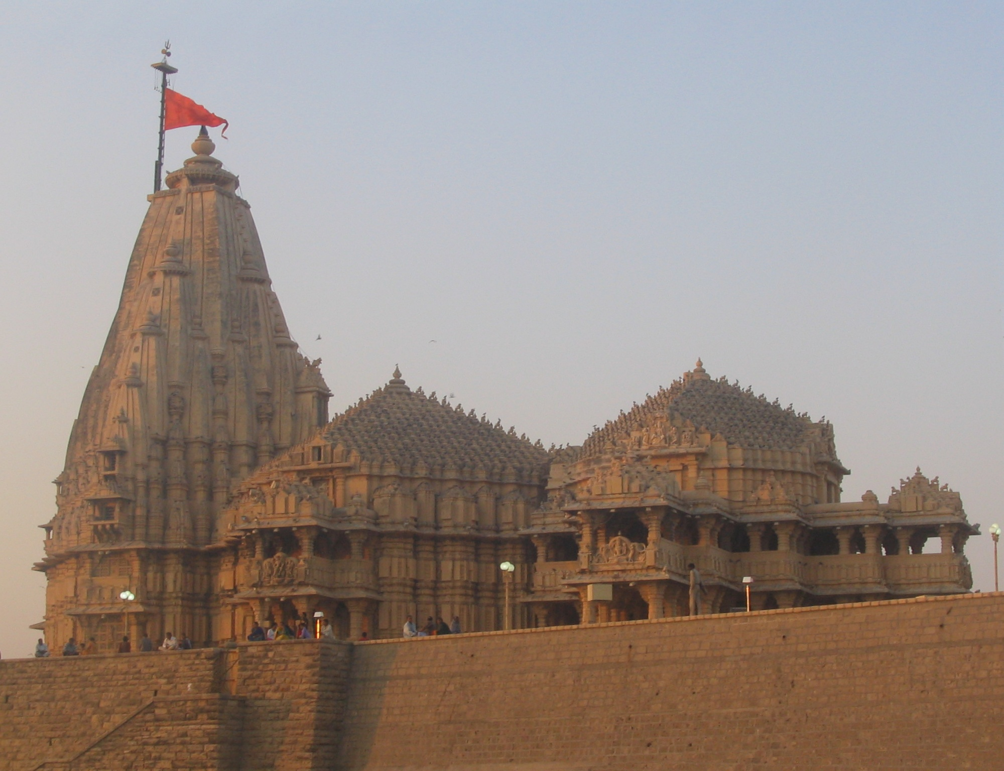 Somanath from the beach